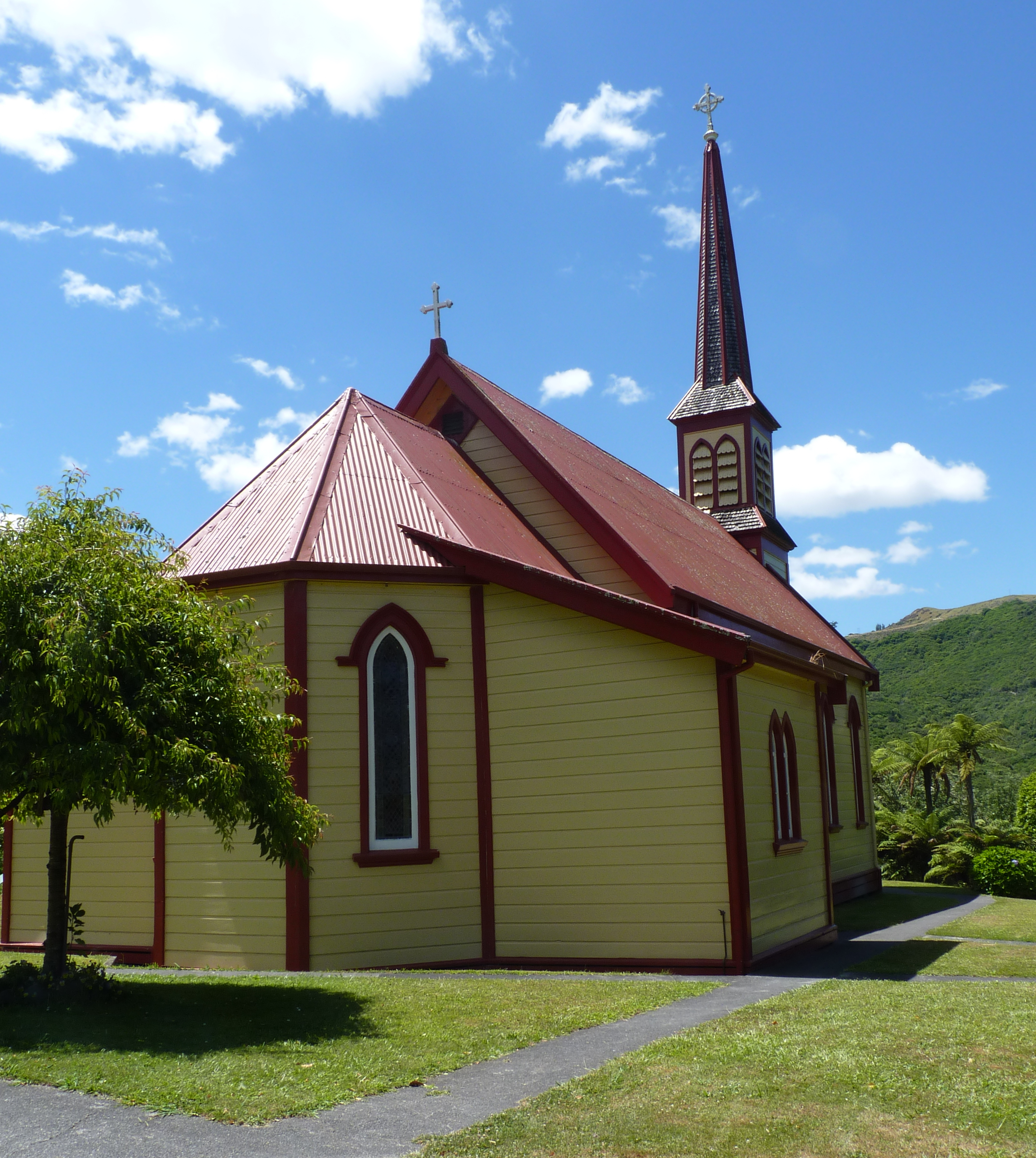 St Joseph's Church in Jerusalem, New Zealand